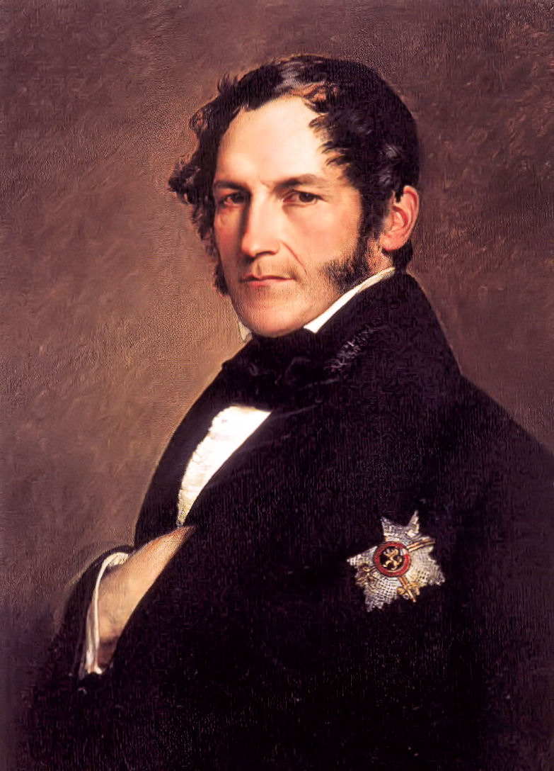 Leopold I of Belgium, first King of the Belgians (detail)